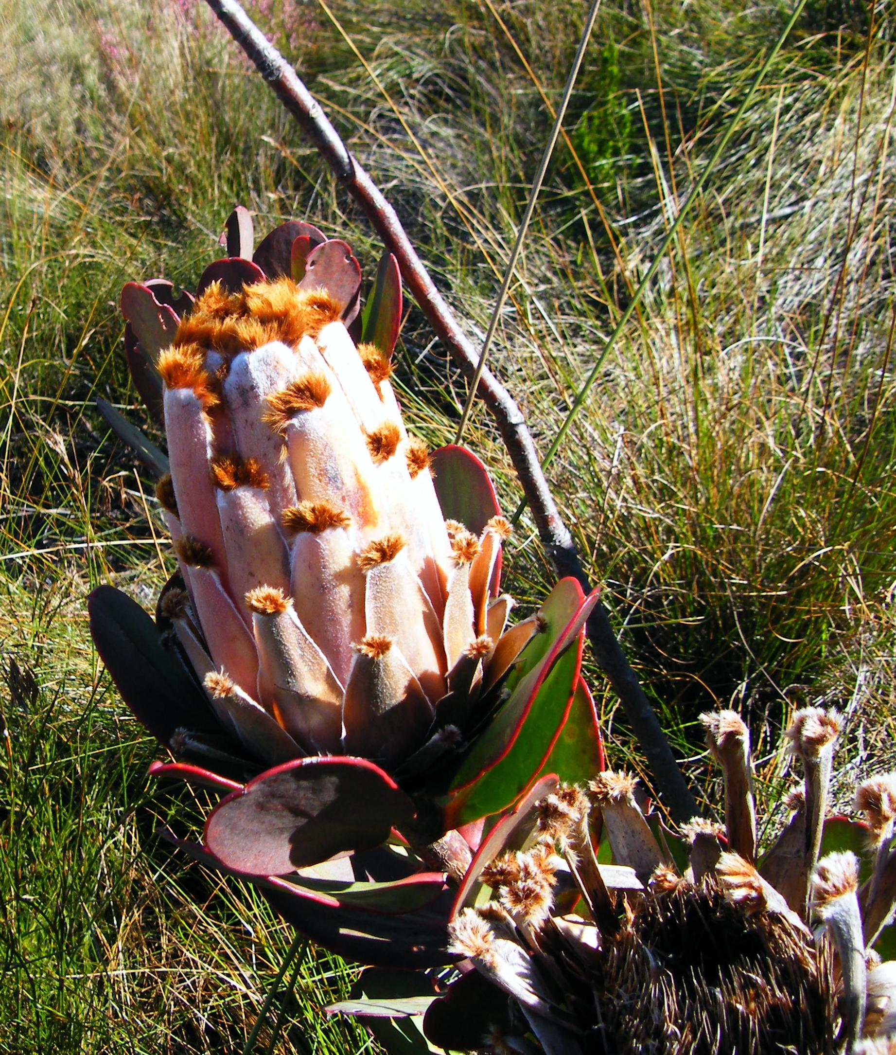 Brown bearded sugarbush